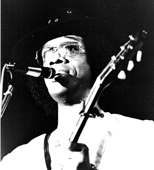 Singer and guitarist Johnny "Guitar" Watson in Paris, France